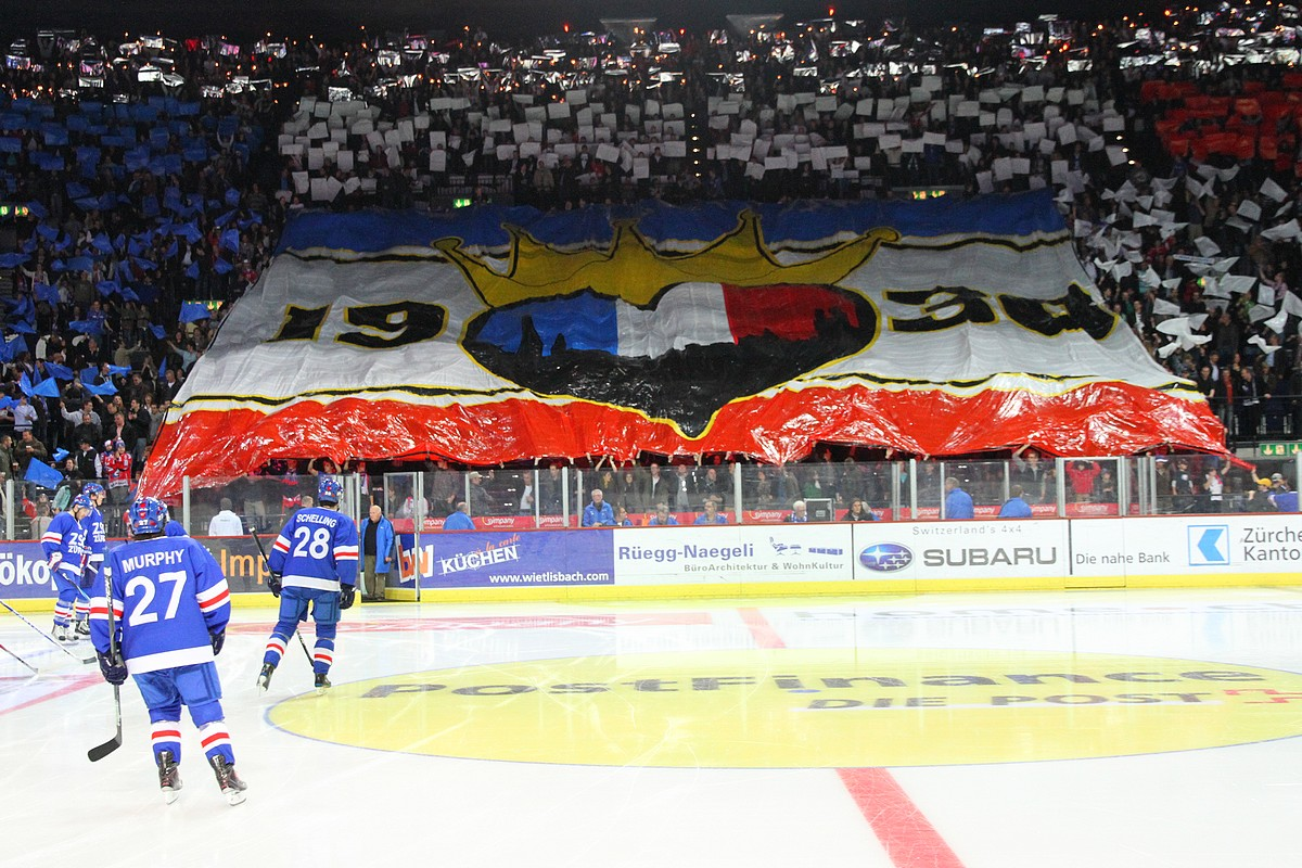 ZSC Lions. 80th anniversary choreography